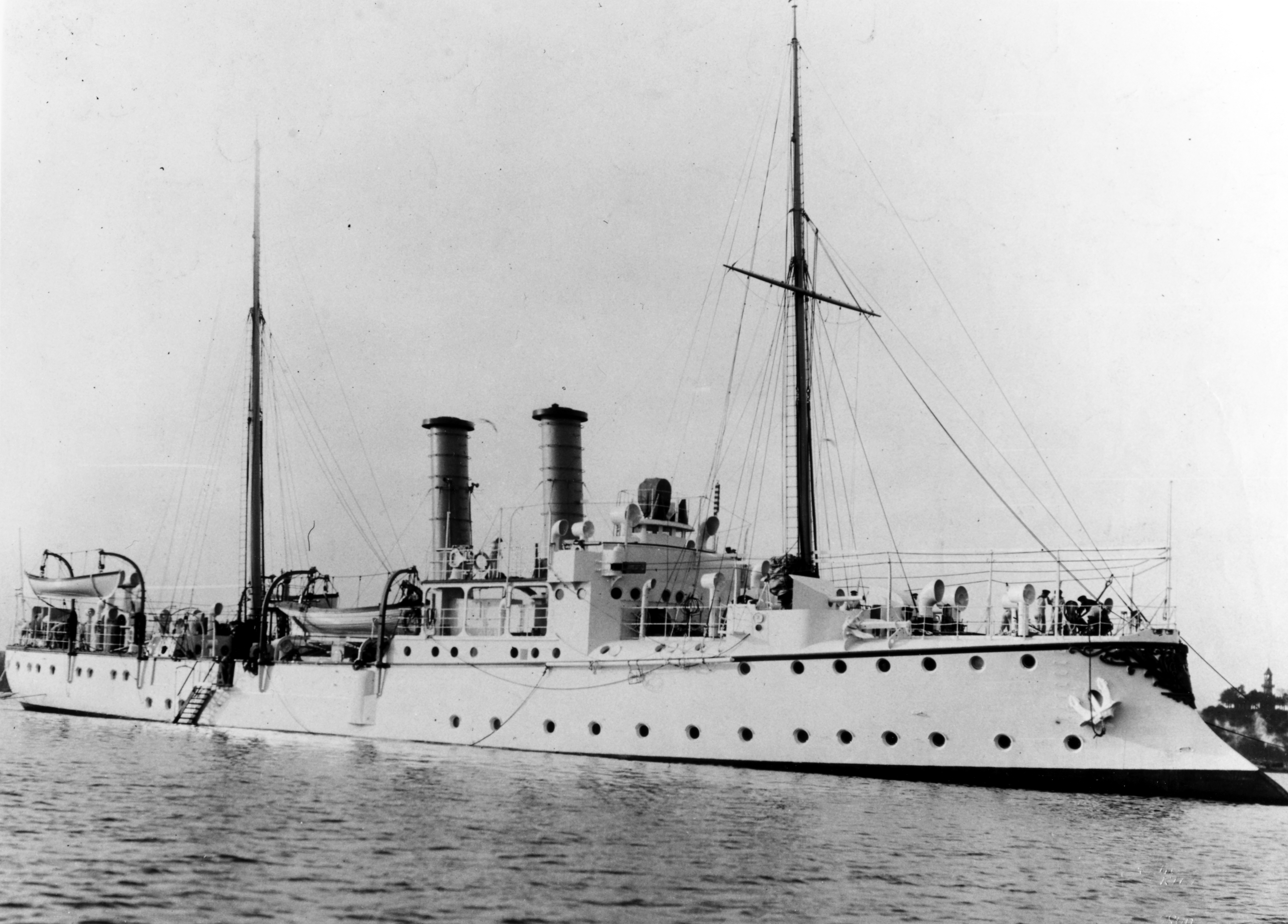 Title: JAGUAR (German gunboat, 1898-1914) Caption: Photo by Arthur Renard, Kiel, 1899.